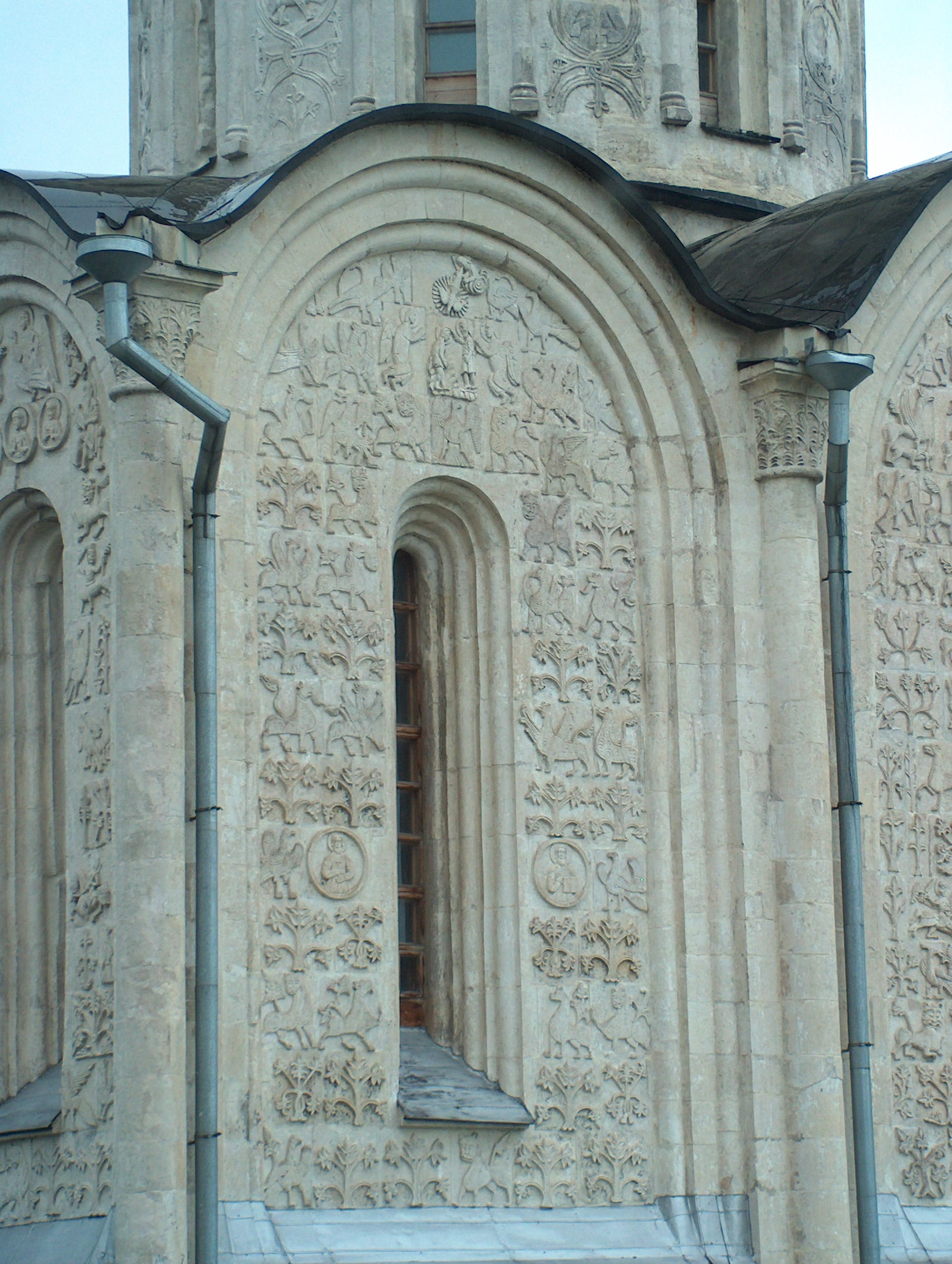 Cathedral of Saint Demetrius. Vladimir, Russia. Reliefs on the wall.